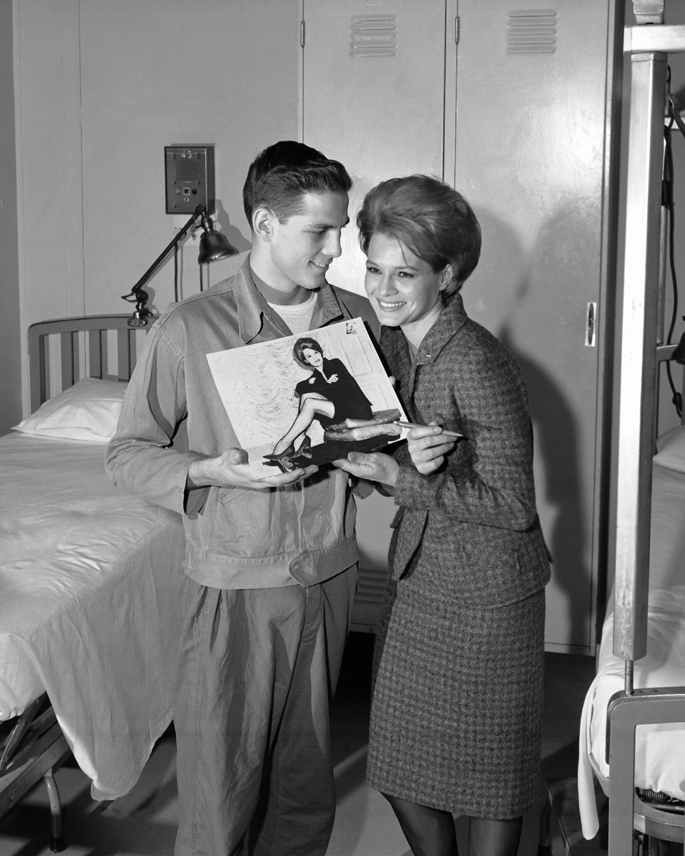 Actress Angie Dickinson signs an autograph for a patient at Fitzsimons Army Hospital in 1964.